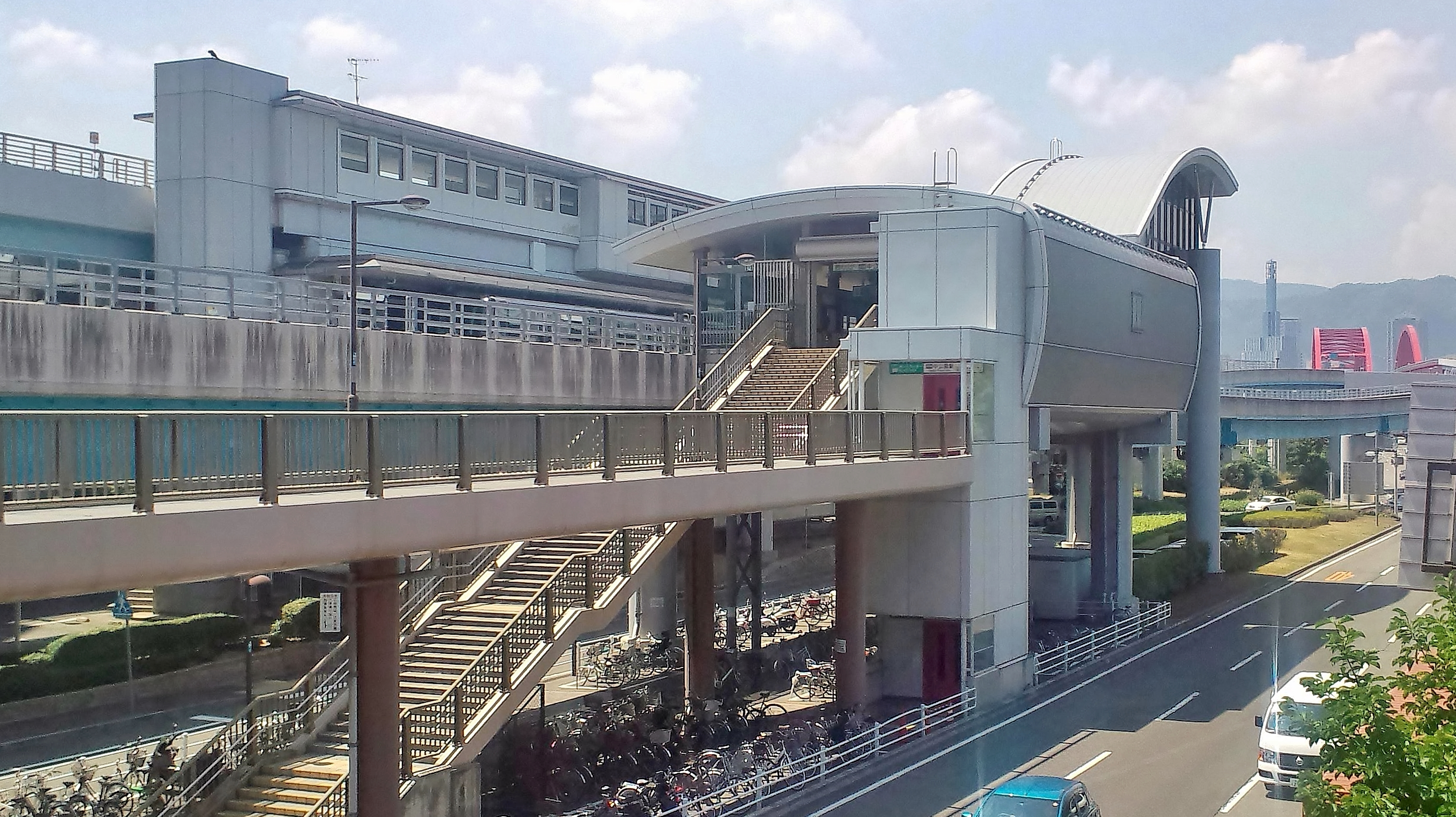 Kobe New Transit Port Island Line (Portliner) P04 Naka Koen Station building